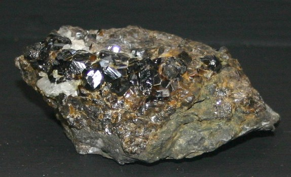 Source: Chris Ralph. This photo taken by Chris Ralph of [1], Photographer and author: photo taken by author.